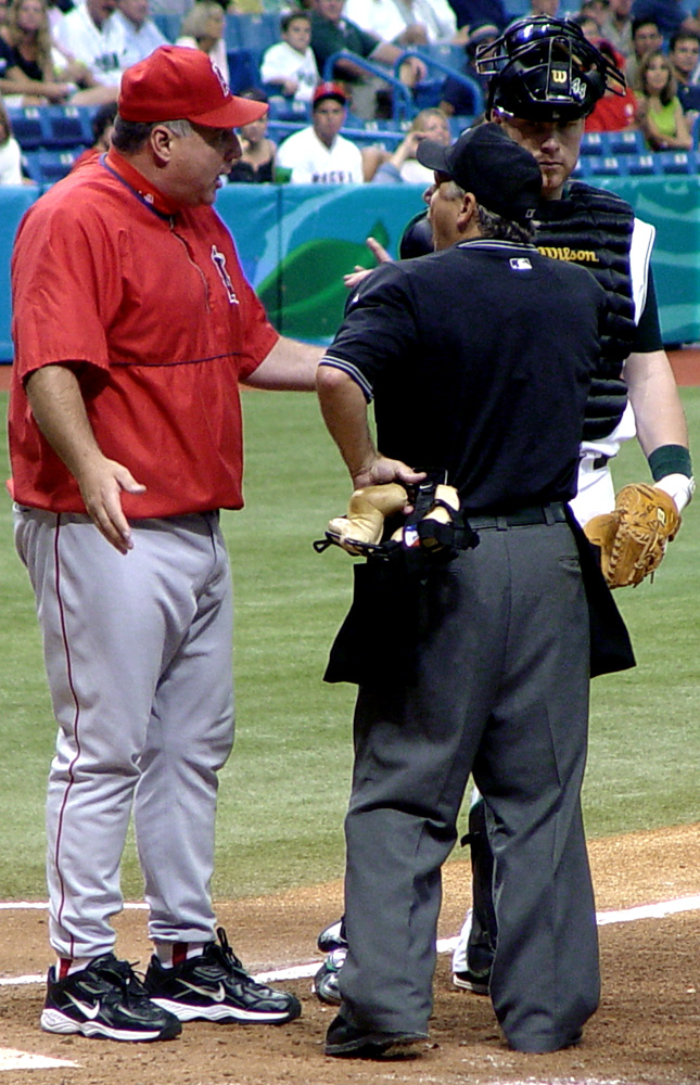 Mike Scioscia argues with the umpire, August 28, 2005. Photo by Googie Man. 09:00, 29 August 2005 . . Googie man . . 645×1000 (334,203 bytes)